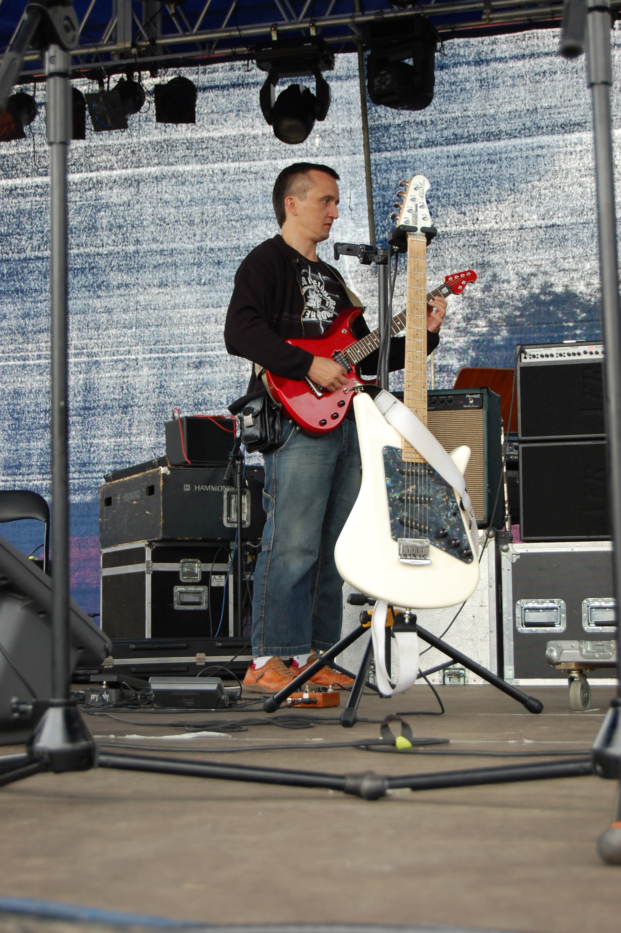 Jacek Królik before the Inowrocławska Noc Solannowa gig